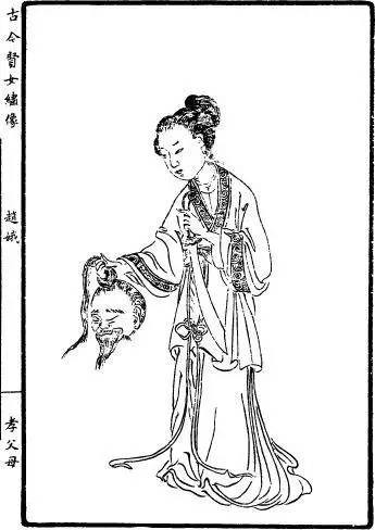 The Wife of Pang Zixia